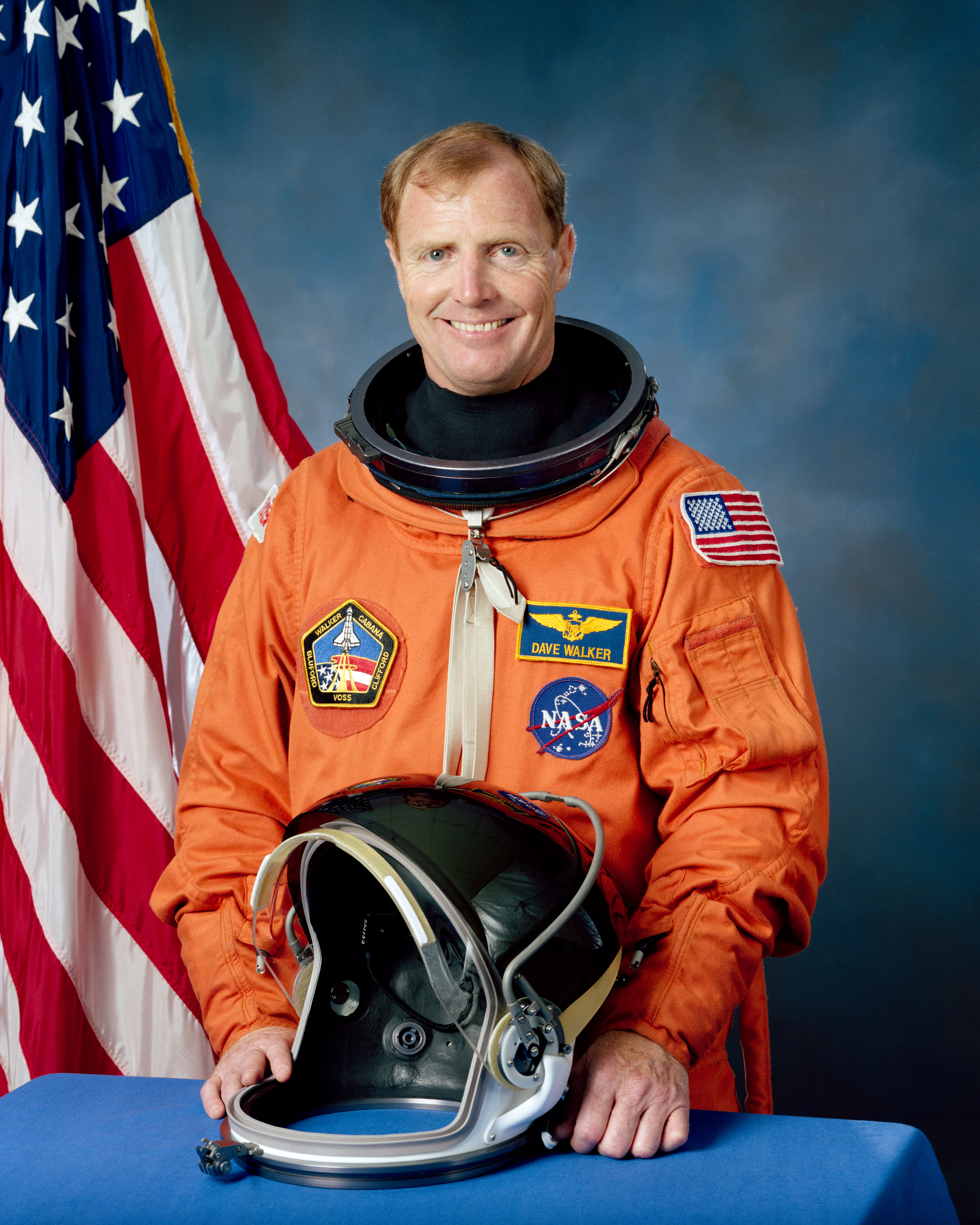 S92-47653 (9 October 1992) --- Astronaut David M. Walker.